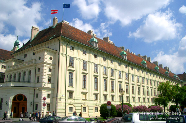 Leopoldinischer Trakt der Wr. Hofburg - Residence of the Federal President (größere Version)